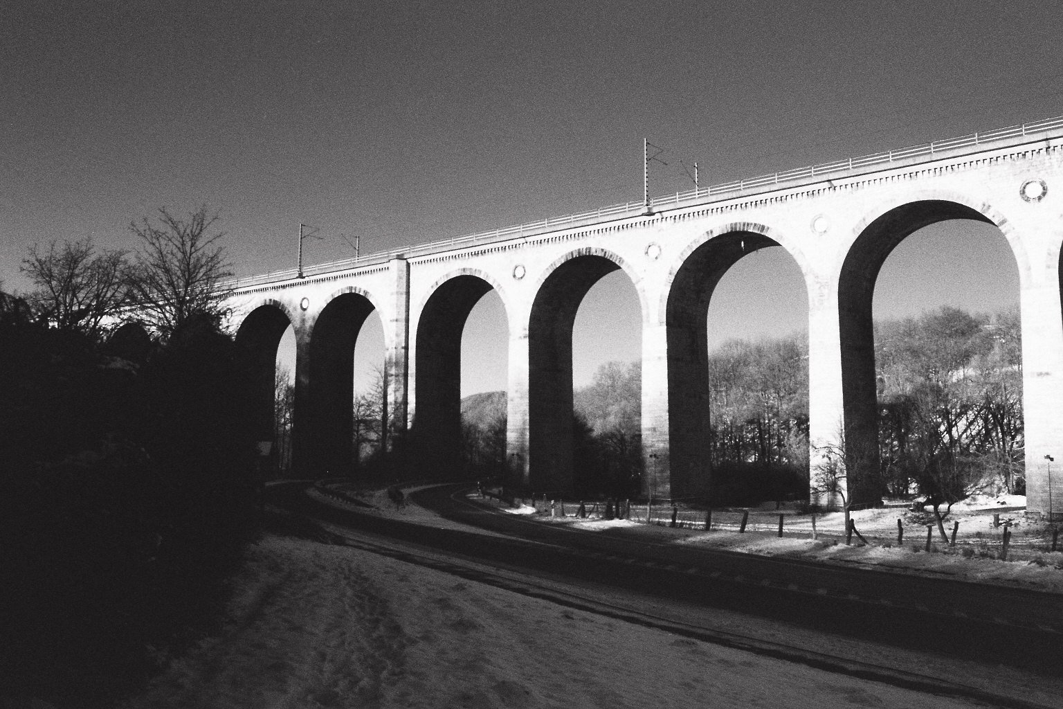 The Altenbeken railway bridge in Altenbeken, District of Paderborn, North Rhine-Westphalia, Germany.